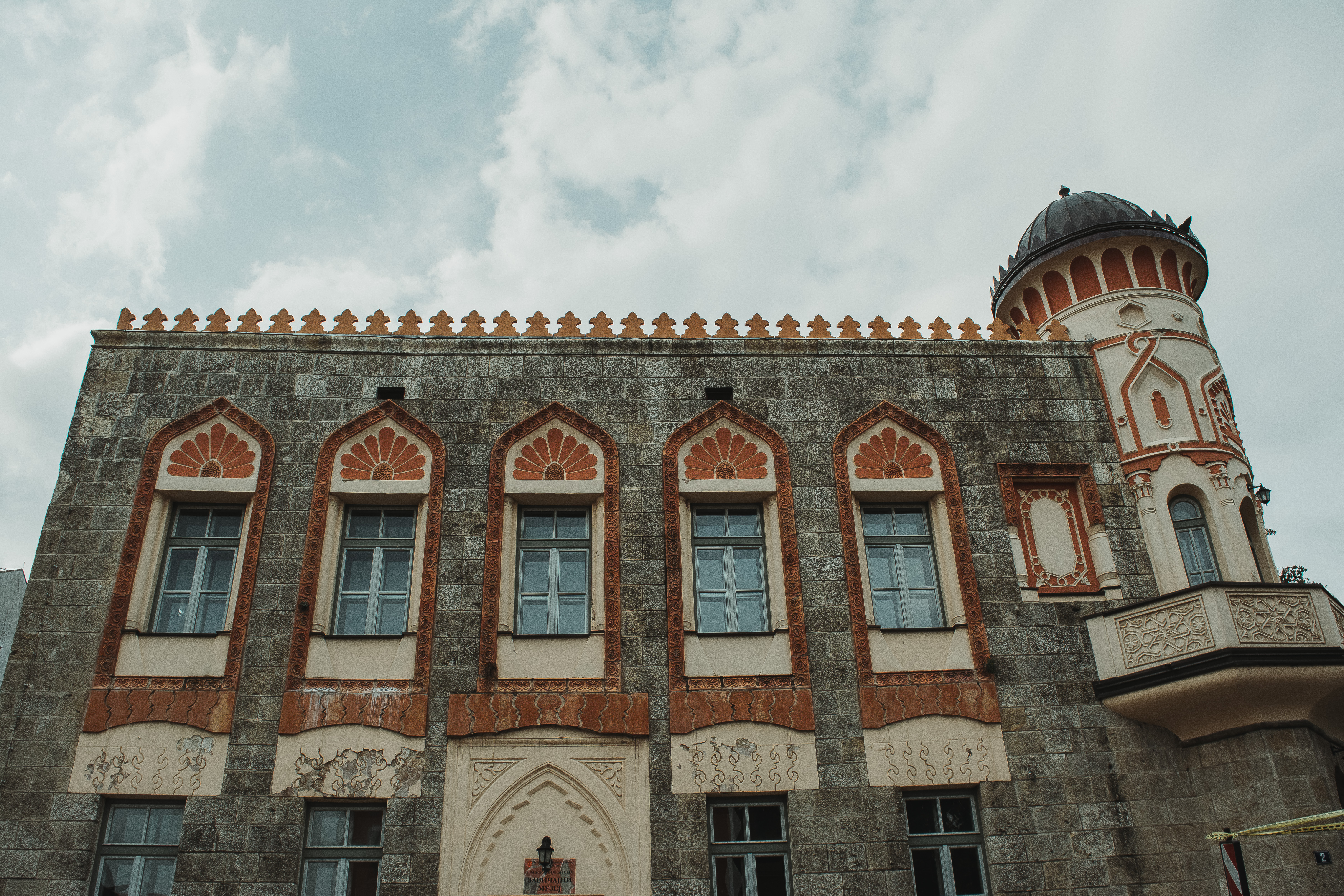 City Hall in Novi Grad. This image was uploaded as part of Trace of Soul 2018.